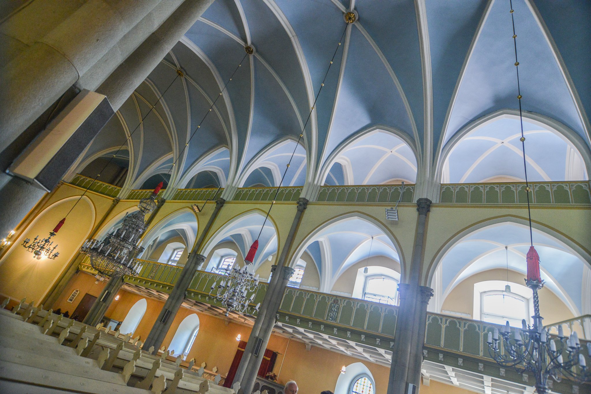 Lutheran Church of the Savior in Bielsko-Biala. Interior photography. Sacral architecture. Bielski Zion, Luther square.